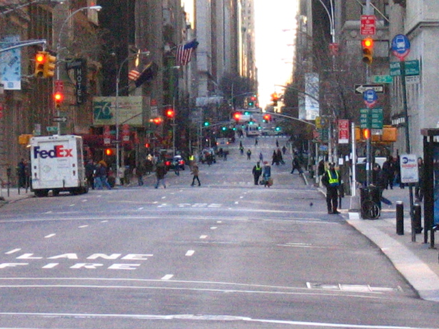 Madison Avenue in Manhattan was one of many streets closed off to all but emergency vehicles during the transit strike. Seen here looking north from 24th Street